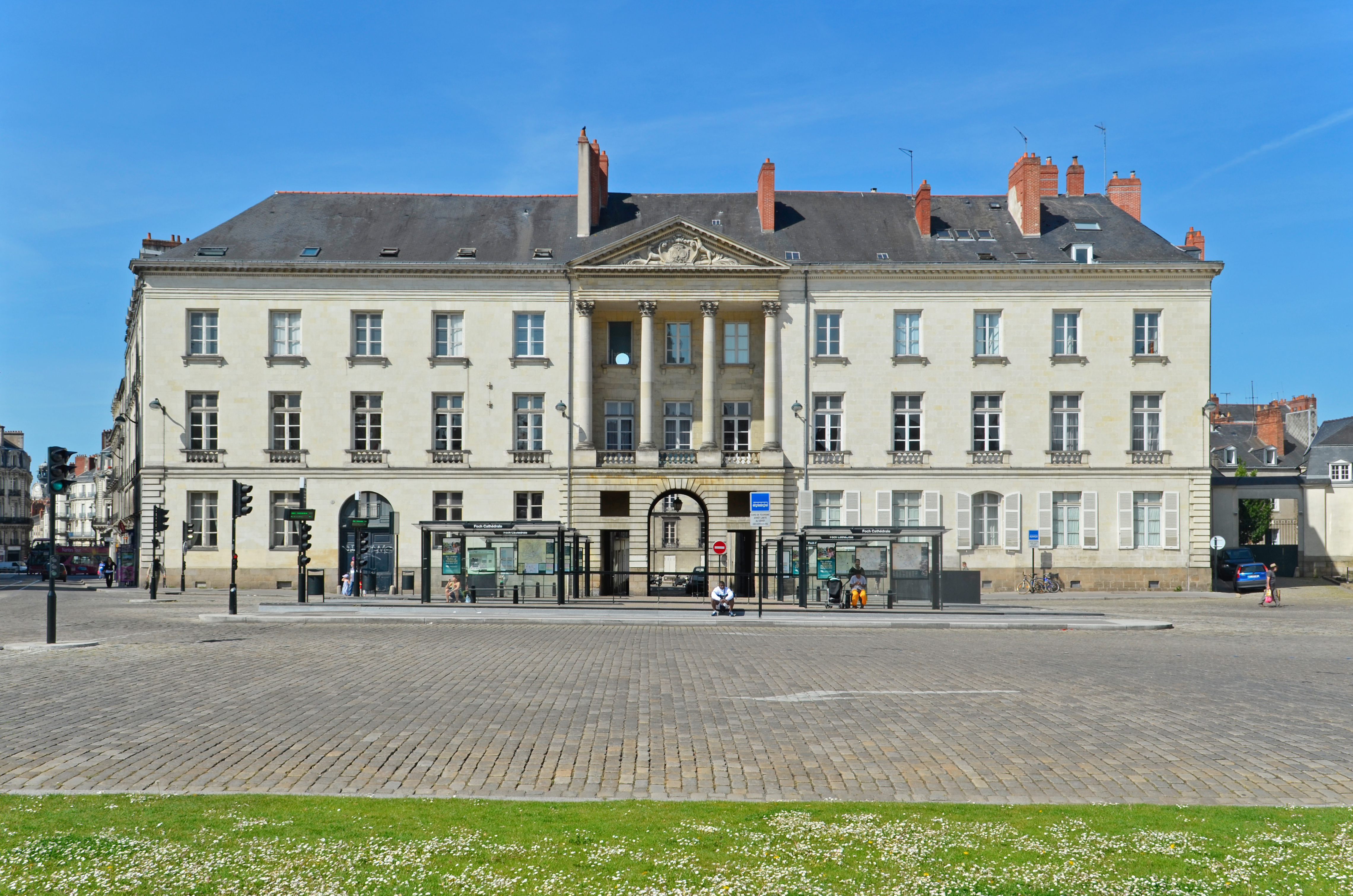 Hôtel Montaudoin facade in Maréchal-Foch town square - Nantes, France